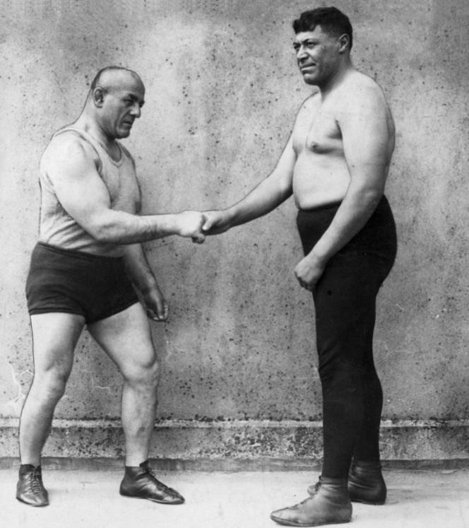 Wrestlers Ike Robin and Stanislaus Zbyszko meet prior to their Auckland bout. Photo was taken by an unidentified photographer in 1926, published prior to January 1, 1960, and is considered in the public domain under New Zealand copyright law.